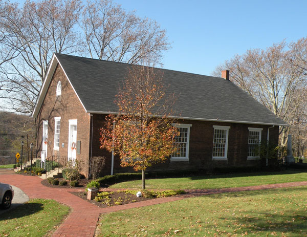 Picture of Beulah Presbyterian Church located at Beulah and McCrady Roads in Churchill, Pennsylvania, on November 8, 2009. The church was built in 1837, and is listed on the National Register of Historic Places.